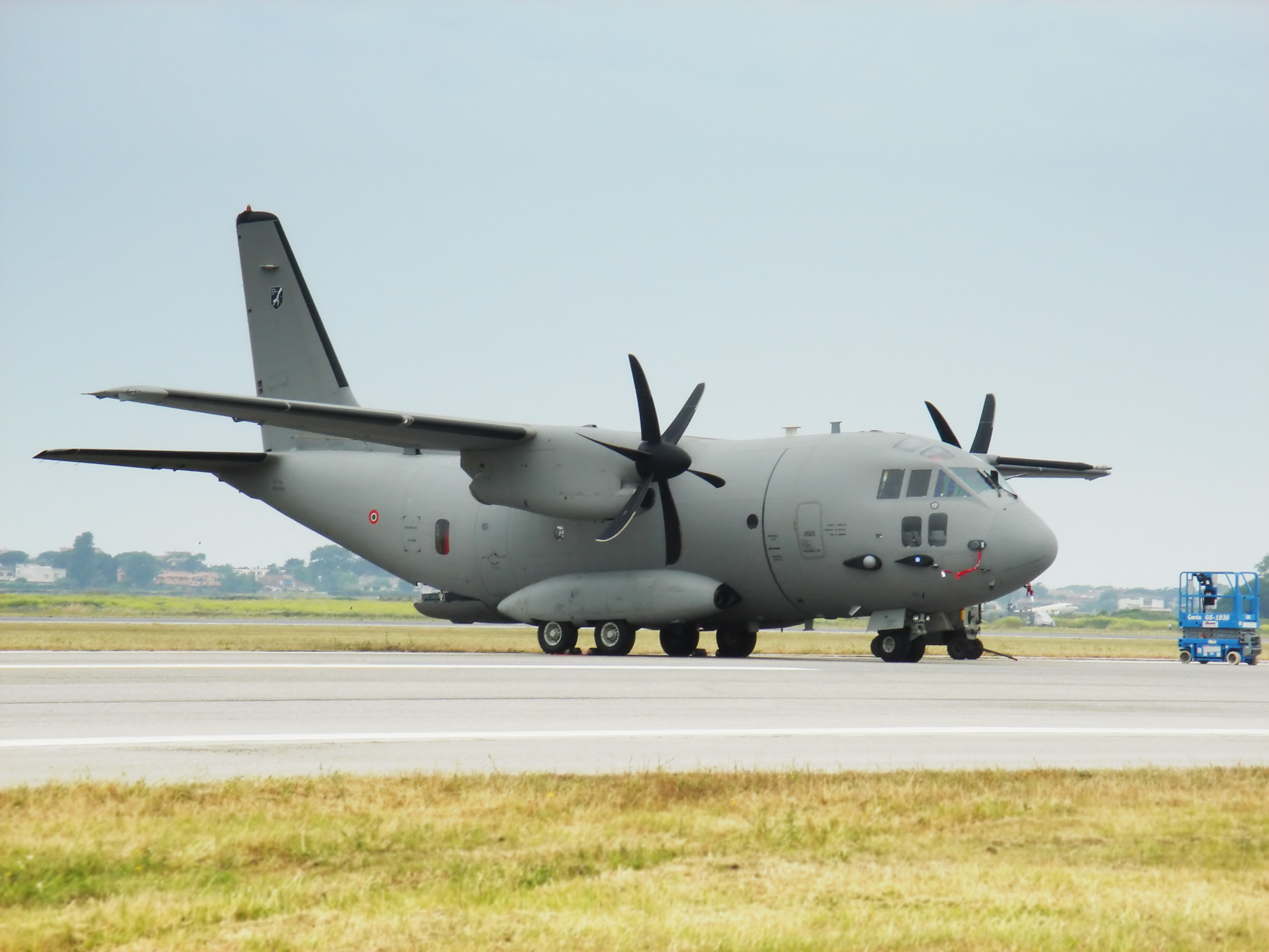 the new italian cargo aircraft Alenia C-27J with the Centro Sperimentale Volo unit markings.